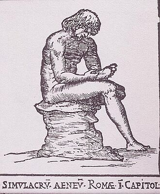 Boy with Thorn in the Icones Statuarum Antiquarum Urbis Romae, Rome 1589, of Girolamo Franzini